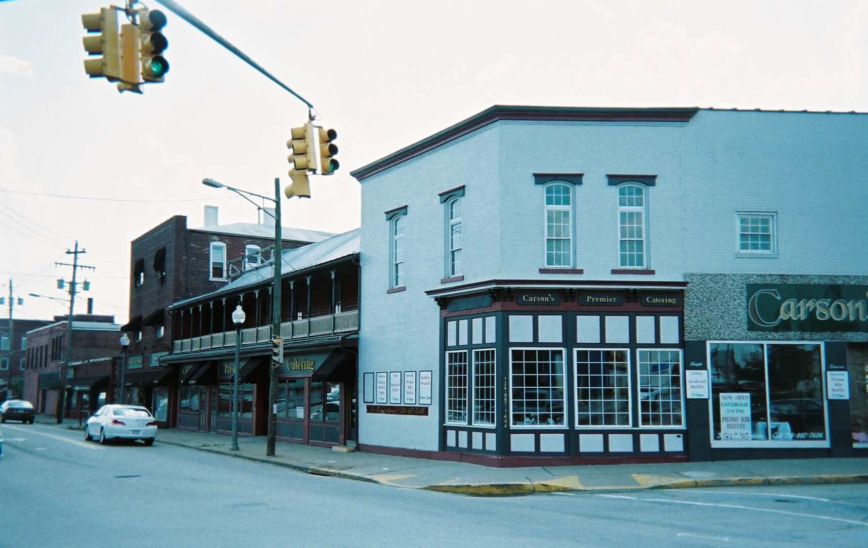 Corner of Pittsburgh Street and South Broadway Street in Scottdale, Pennsylvania. This is the view looking southward on South Broadway Street. The buildings are 4-10 South Broadway Street (on left with balcony) and 101 Pittsburgh Street (white building on right). These buildings, built approximately 1880, are the oldest nonresidential buildings within the boundaries of the Borough of Scottdale.